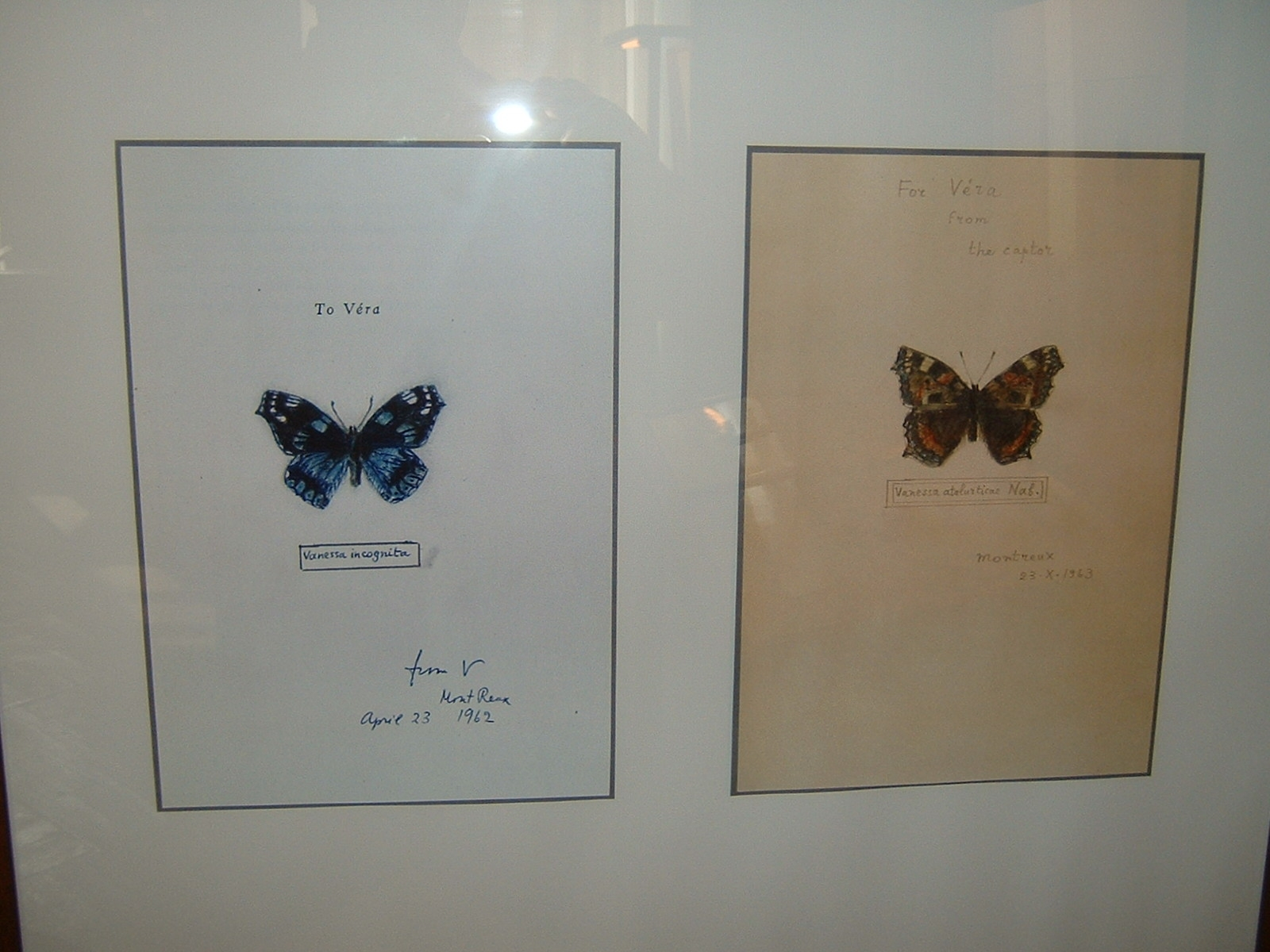 Butterflies colected by Vladimir Nabokov Colection of Nabokov House